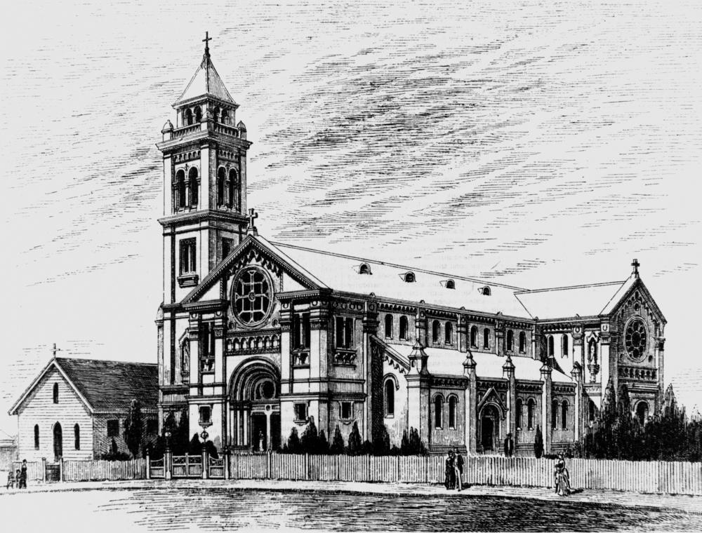 Lithograph of St Mary's Catholic Church at South Brisbane published in The Queenslander, 1893 Simkin and Ibler, architects and civil engineers were responsible for the erection of St Mary's Church at South Brisbane during 1892-3.